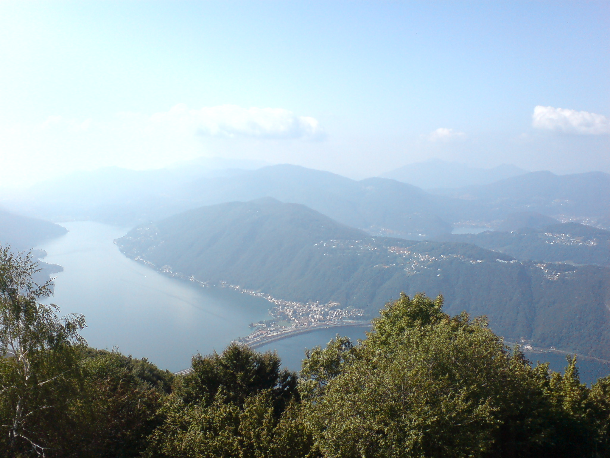 Lake Lugano and Melide Dam, in Ticino, Switzerland